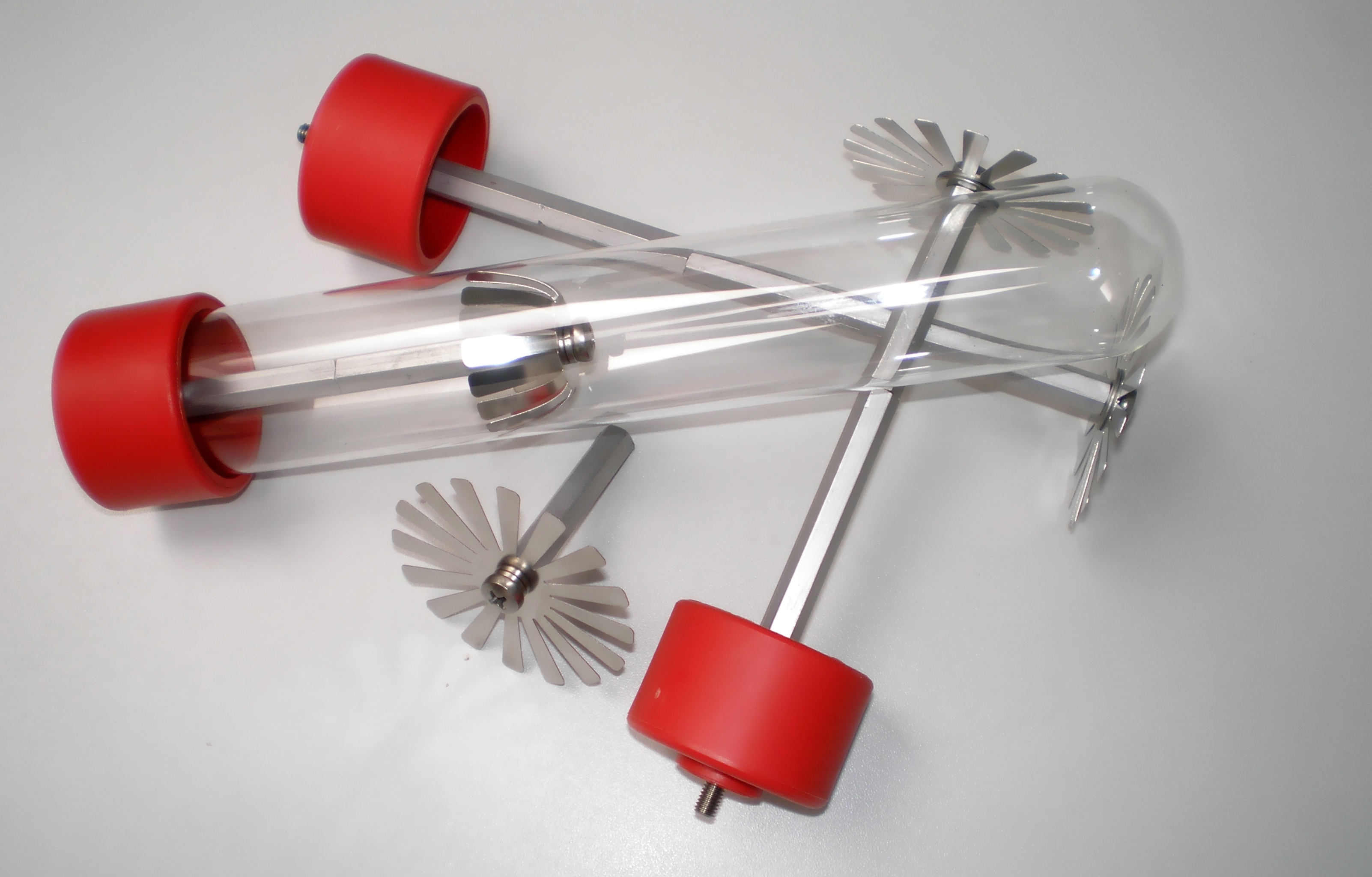 Contact spring ring as a part of a ionize tube